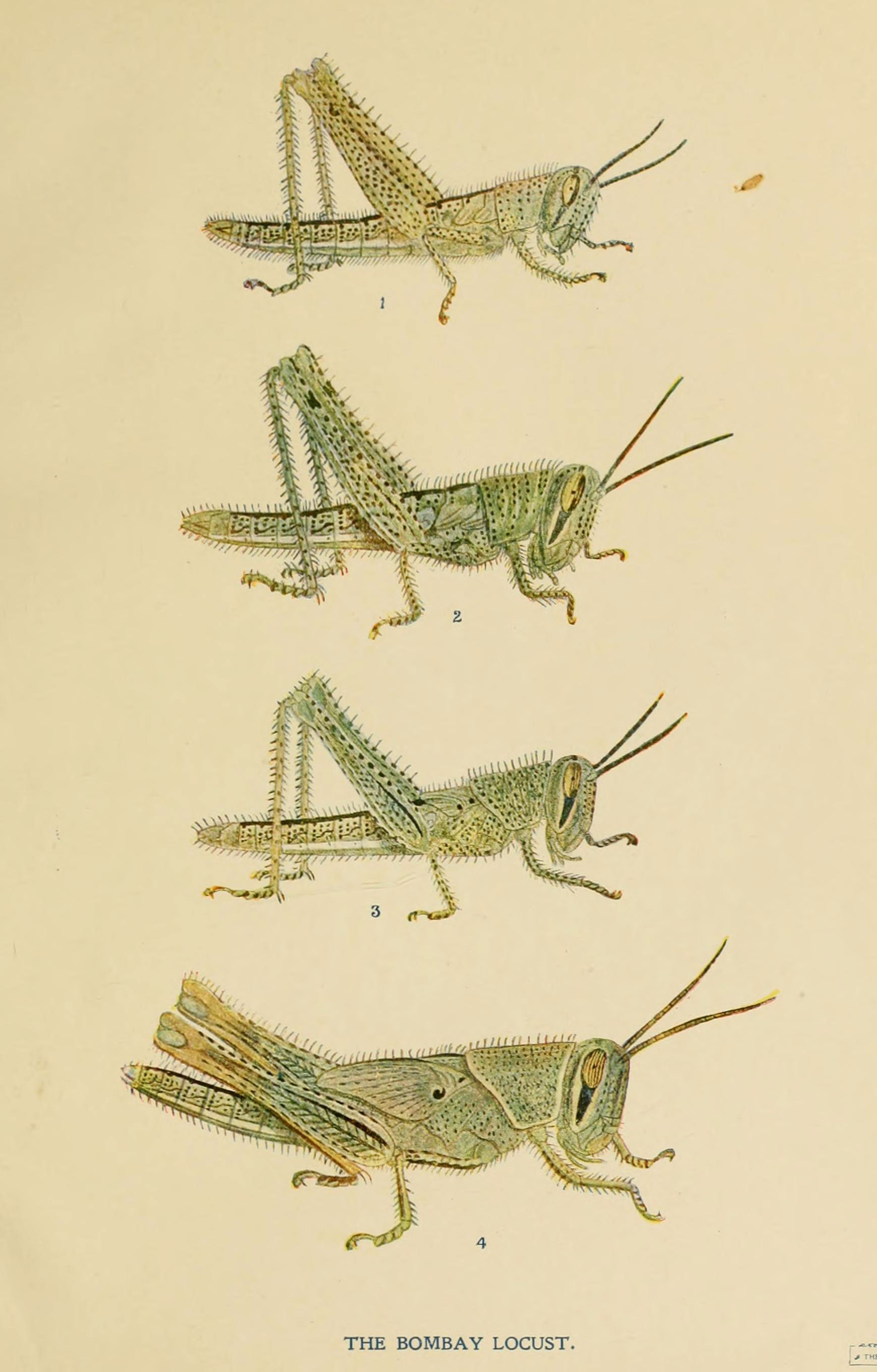 THE BOMBAY LOCUST. Name In text: Acridium succinctum Accepted name: Nomadacris succincta